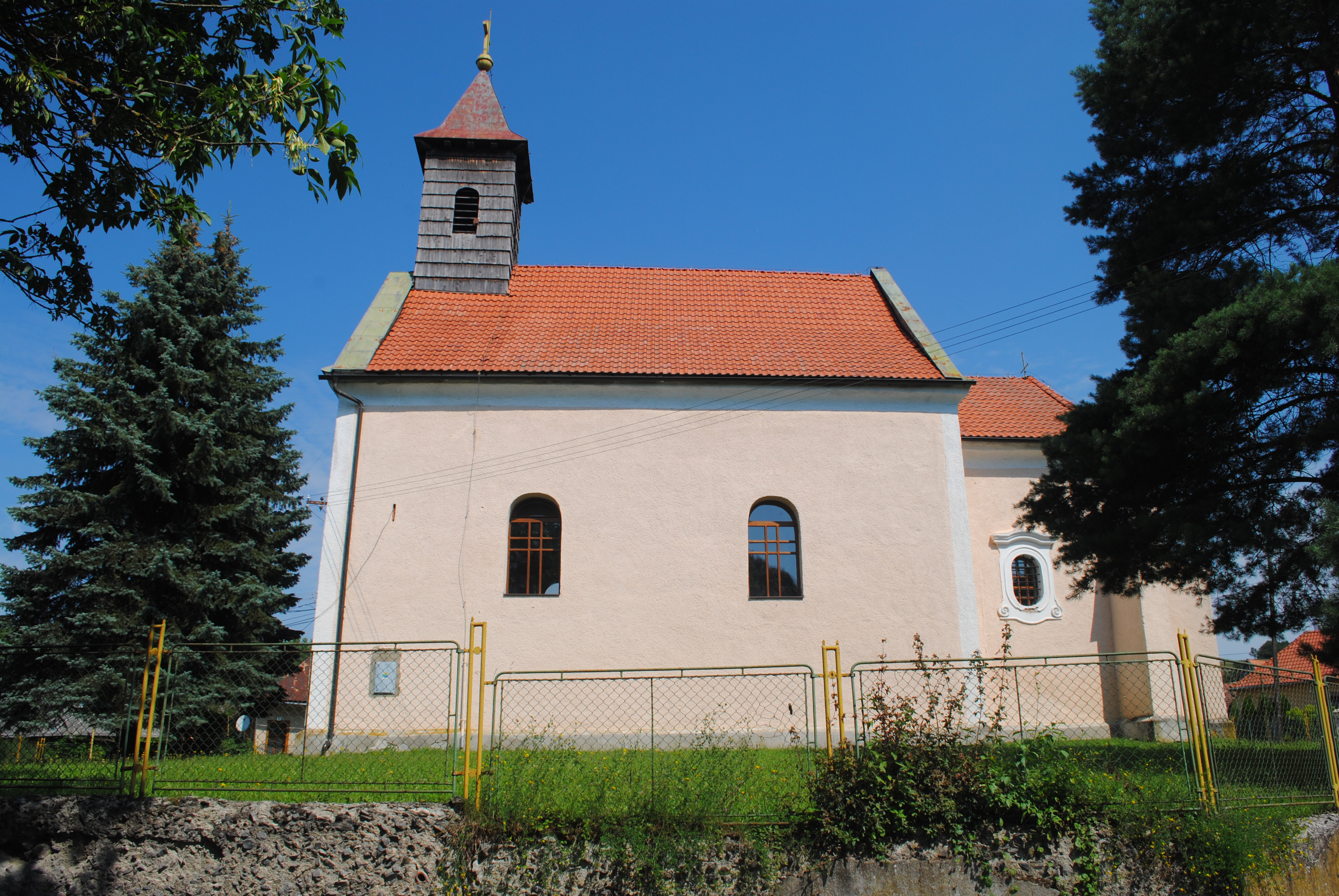 Church of the Nativity of the Blessed Virgin Mary, Šipice, Hontianske Tesáre